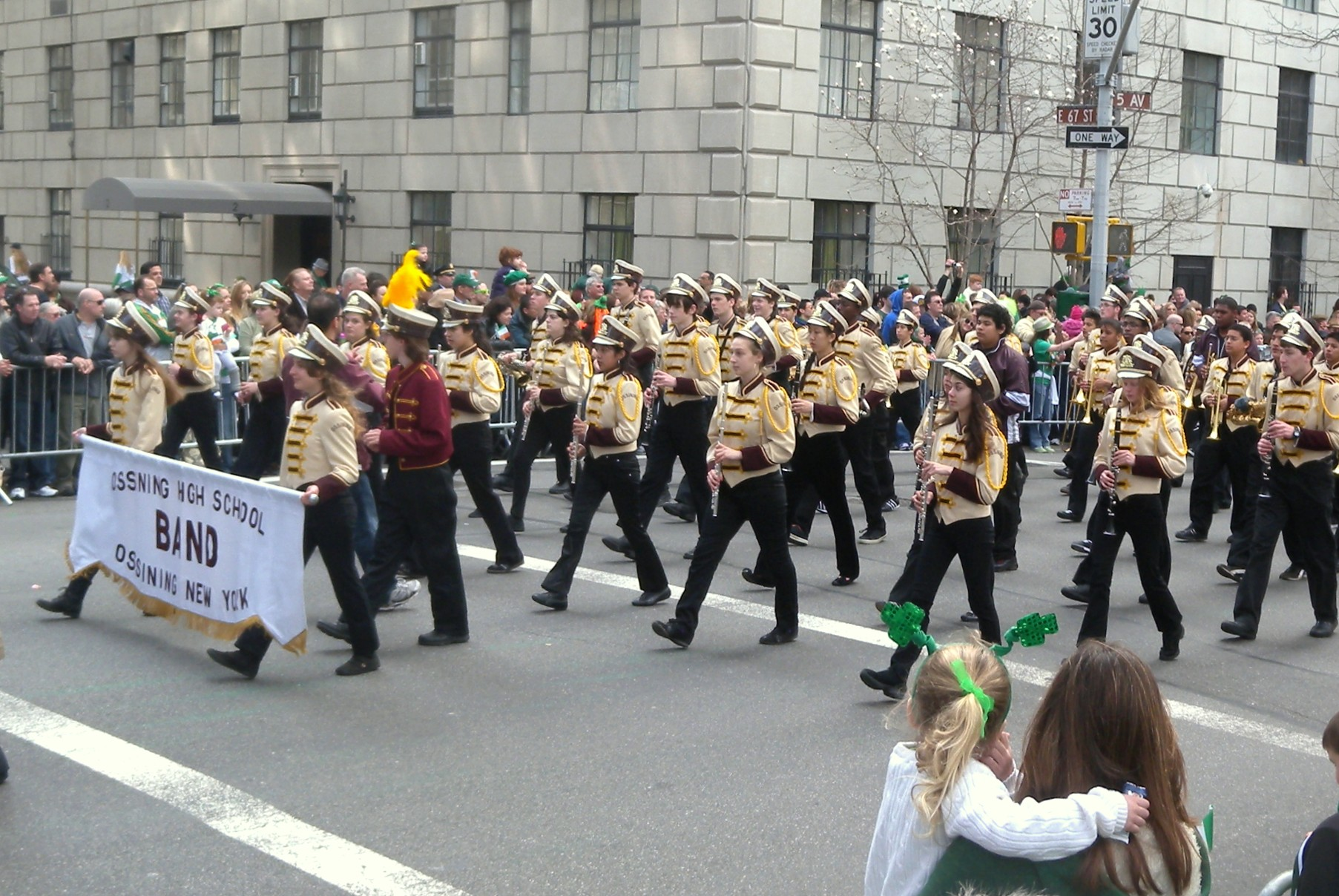 Ossining High School band crosses 67th Street.